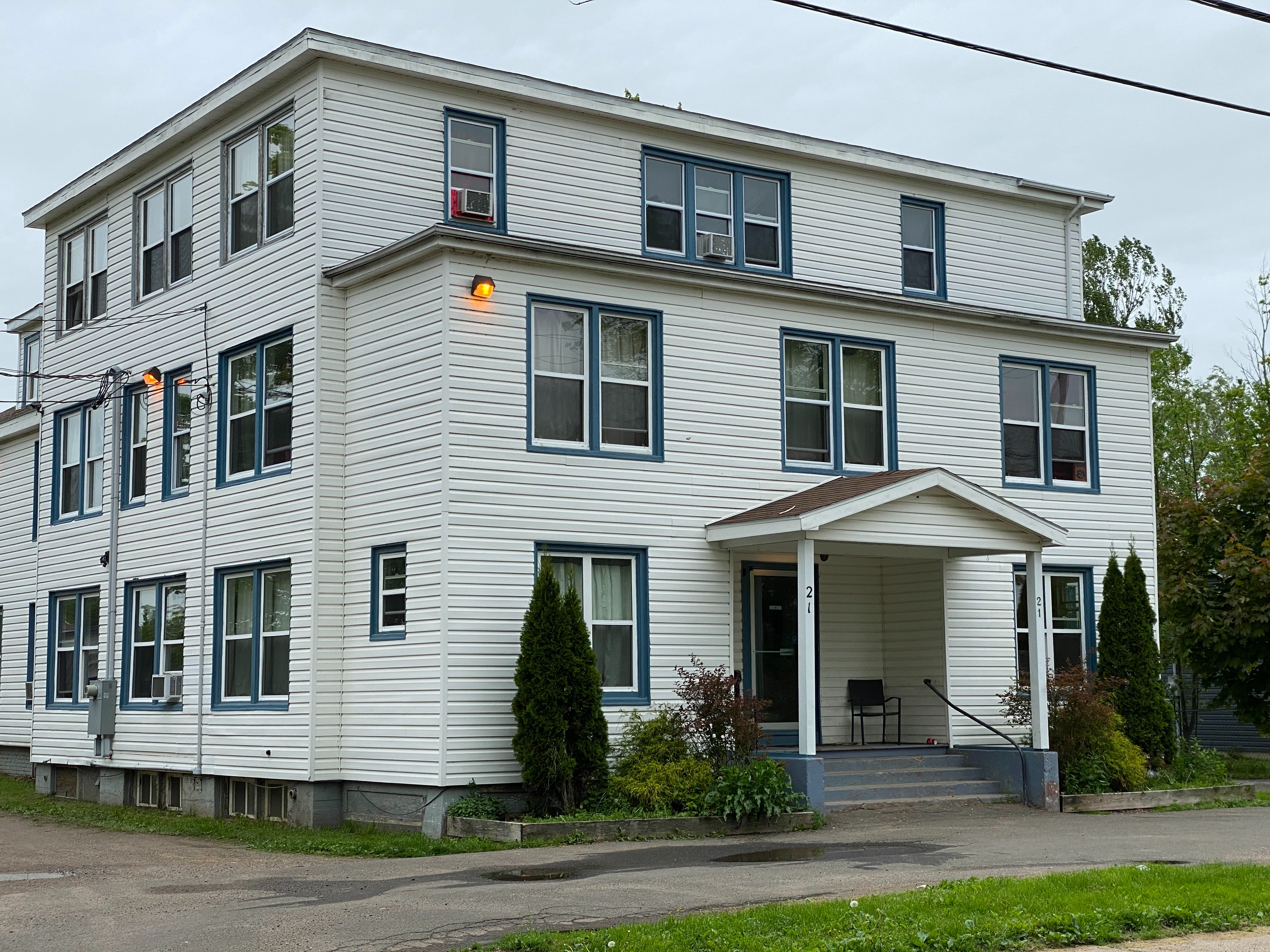 The original 1921 Soldiers Memorial Hospital build on Gates Avenue. Currently used as a multi unit apartment.